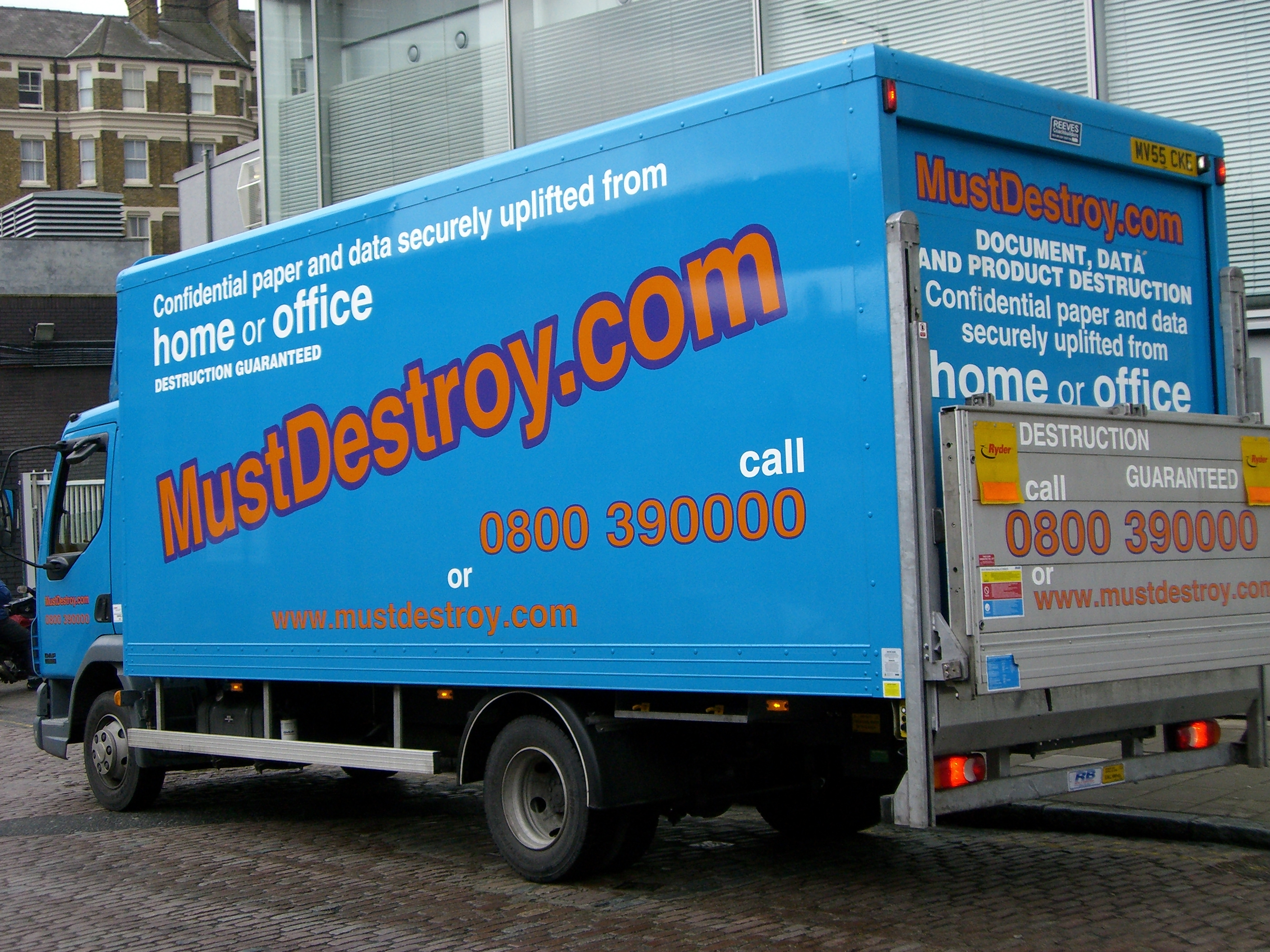 Lorry of a paper shredding company. Photo taken 24 March 2006 in Central London by User:Edward.